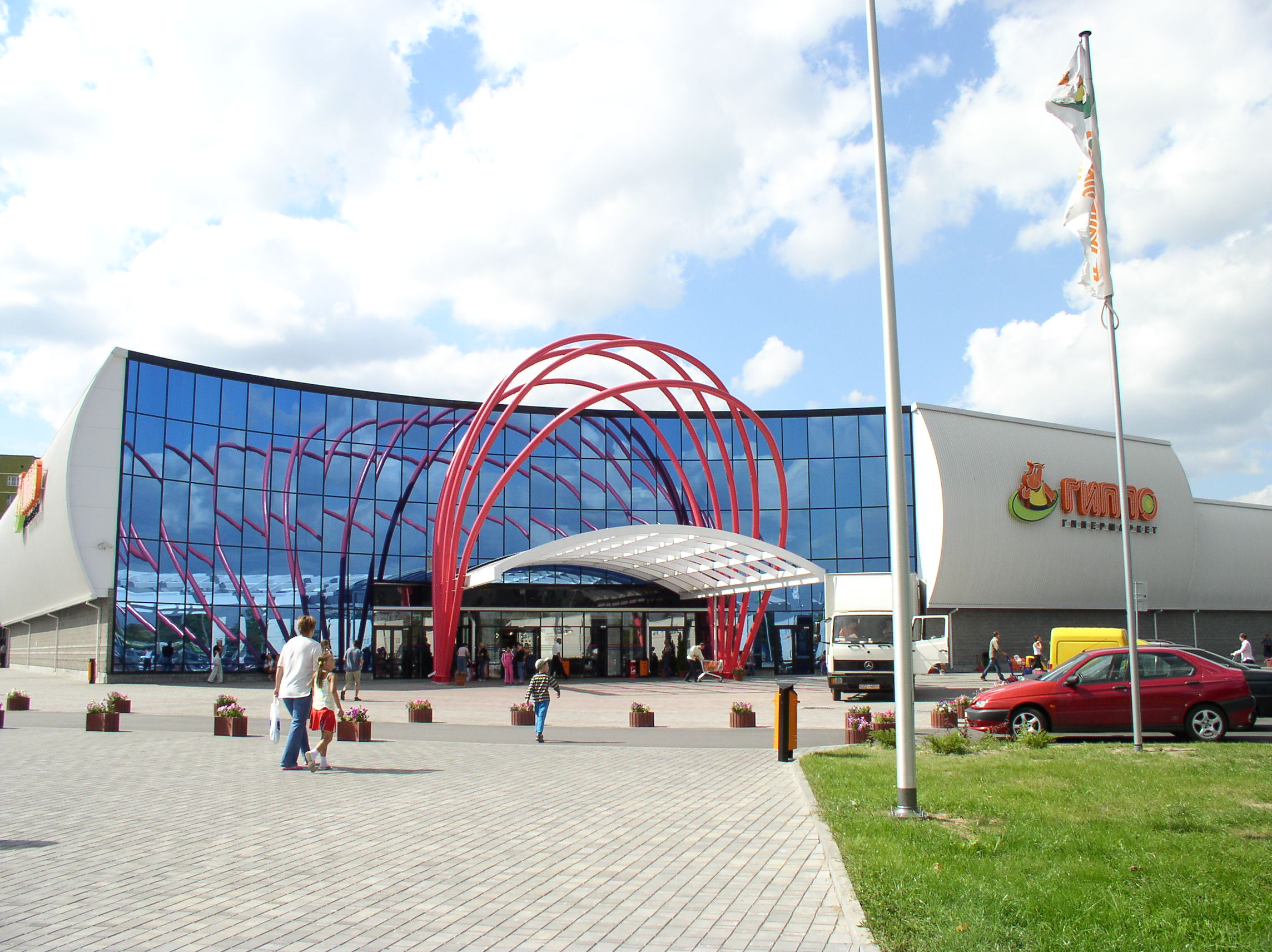 Hypermarket "Hippo". Minsk, Belarus.